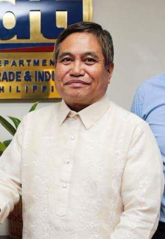 The Philippine Board of Investments (BOI) has a new member in its roster of Board of Governors in the name of Dr. Jaime Aristotle B. Alip (second from right). A 2008 Ramon Magsaysay Awardee, Governor Alip was Founder and Managing Director of the Center for Agriculture and Rural Development Mutually Reinforcing Institutions (CARD MRI). Governor Alip also served key positions in government including Undersecretary of the Department of Social Welfare and Development, Assistant Secretary of the Department of Agrarian Reform, and Deputy Executive Director of the Agricultural Credit Policy Council. Trade Secretary and BOI Chairman Ramon Lopez (second from left) said the addition of Governor Alip in the Board will greatly help in the evaluation of investment projects especially those harnessing growth through inclusive business and benefiting micro, small, and medium enterprises. The BOI Board is composed of seven Governors, as provided by Executive Order Number 226 or the Omnibus Investments Code including the Secretary of the Department of Trade & Industry (DTI), three Undersecretaries of the DTI, and three representatives from other government agencies and the private sector. The President appoints the three representatives from the other government agencies and the private sector with a term of four years. Photo shows Secretary Lopez (second from left) in a handshake with Governor Alip after the Oath of Office rites at the BOI Building. Joining them are BOI Legal and Compliance Service Director Marjorie Ramos-Samaniego (left) and Trade Undersecretary for Industry Development and BOI Managing Head Ceferino Rodolfo (right).